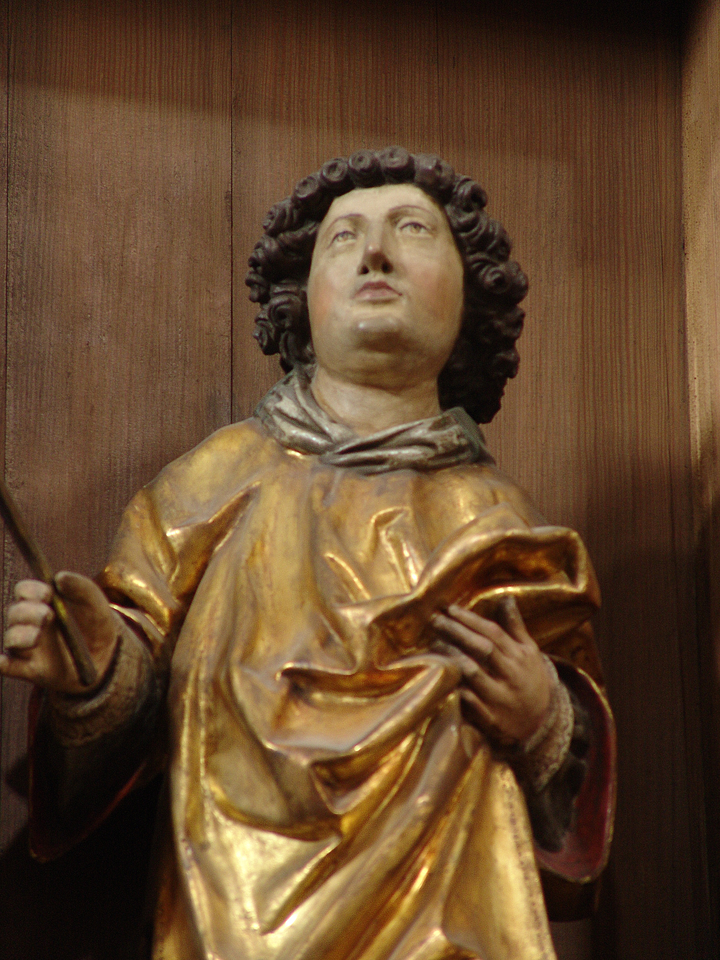 Detail of St. Stephanus of the so called Riemenschneider altar